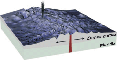 This is a rendering of an ocean ridge.